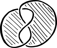 The trefoil knot and its Seifert surface created by applying the checkerboard algorithm.